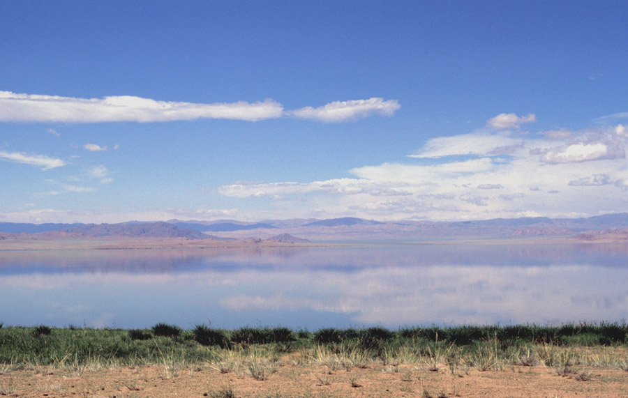 Lake Achit-Nuur